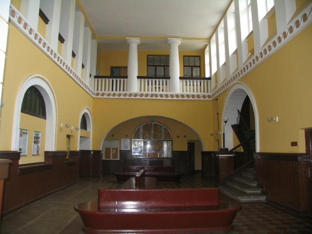 Interior view of the trainstation in Gulbene, Latvia